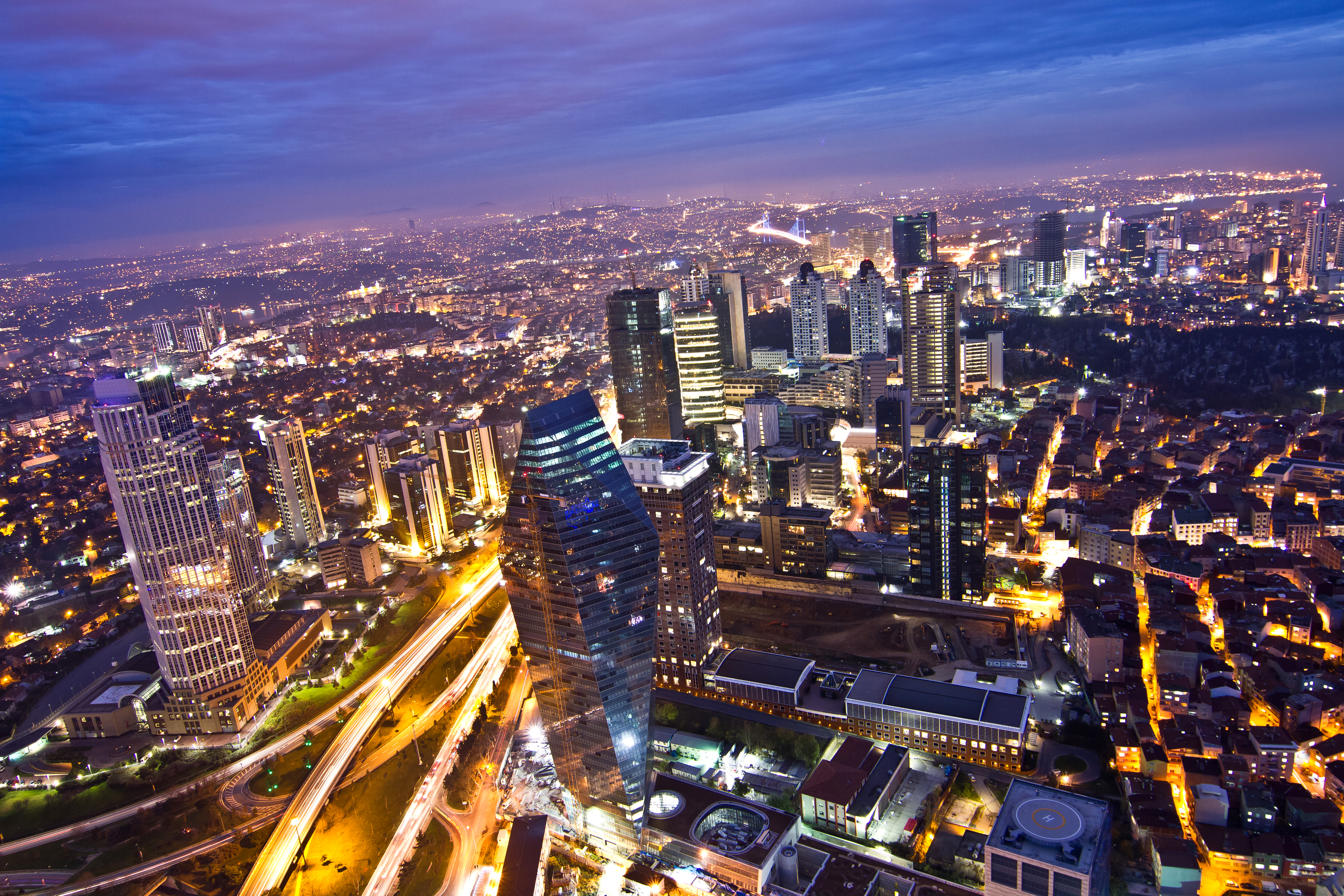 Levent viewed from Istanbul Sapphire observation deck at night